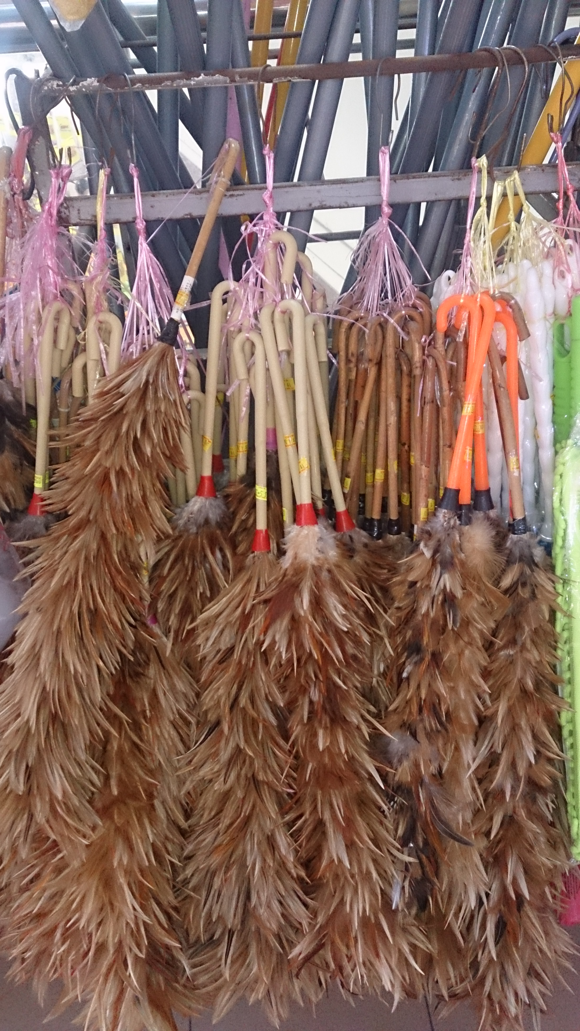 featuring real feathers